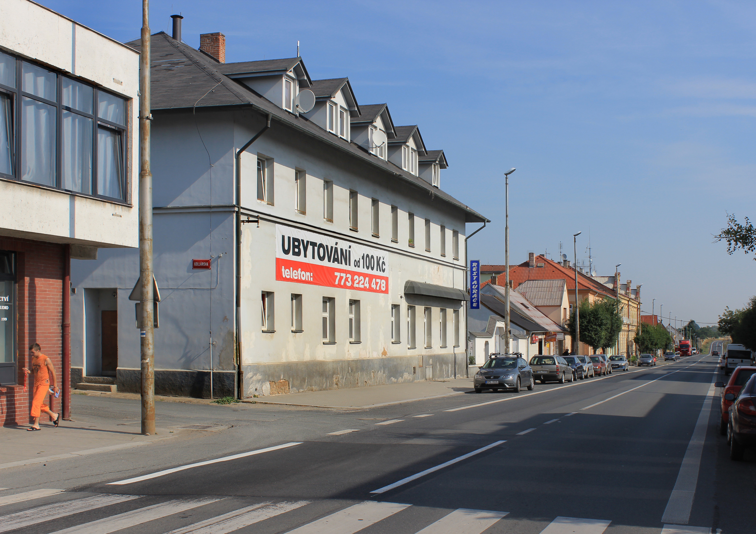 Road No 26 in Chotěšov, Czech Republic.